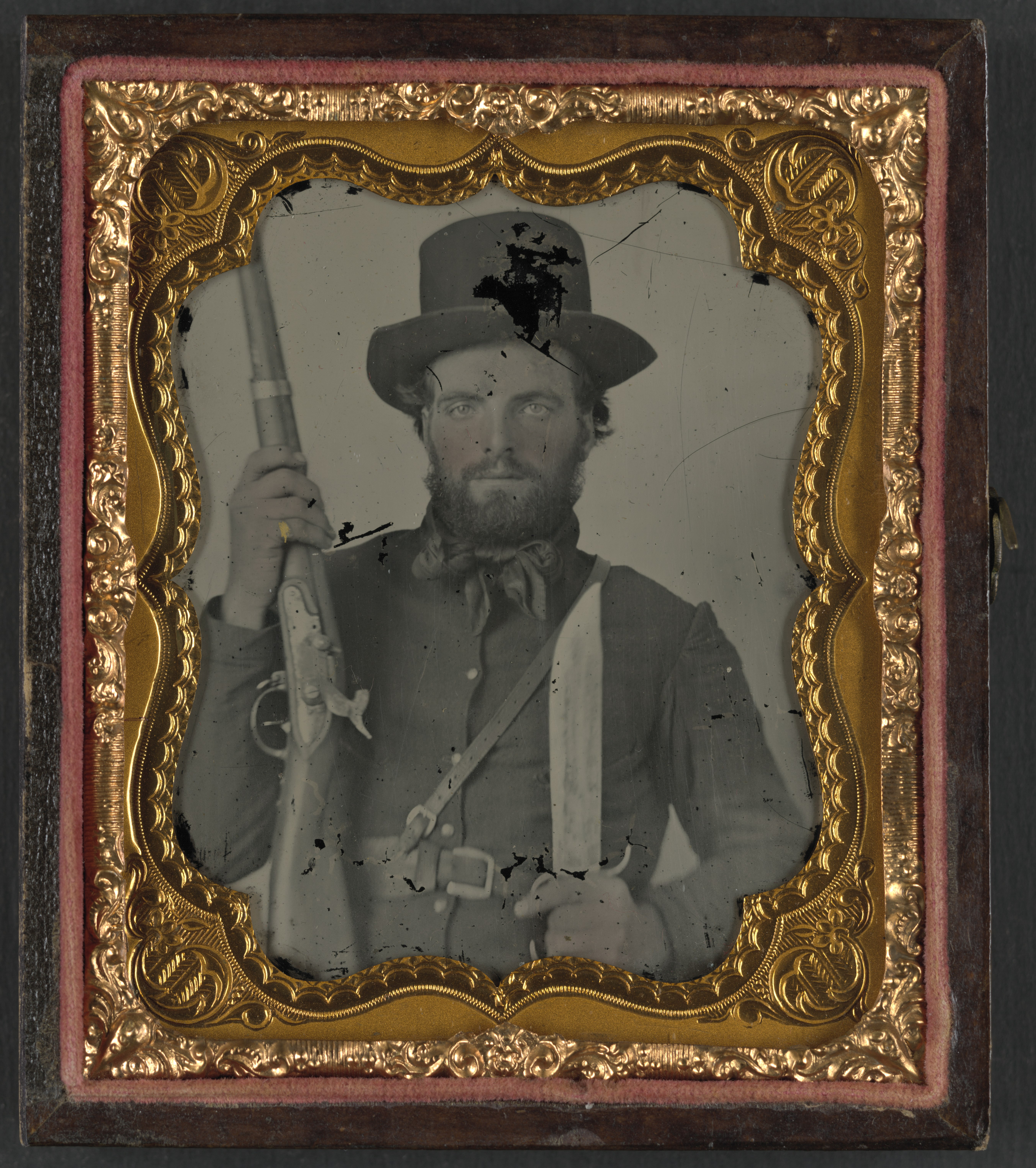 Title: Private Stanford Lea Jessee of Co. A, 29th Virginia Infantry Regiment in uniform with rifle and Bowie knife Abstract/medium: 1 photograph : hand-colored ambrotype ; plate 82 x 69 mm (sixth plate format), case 95 x 81 mm.